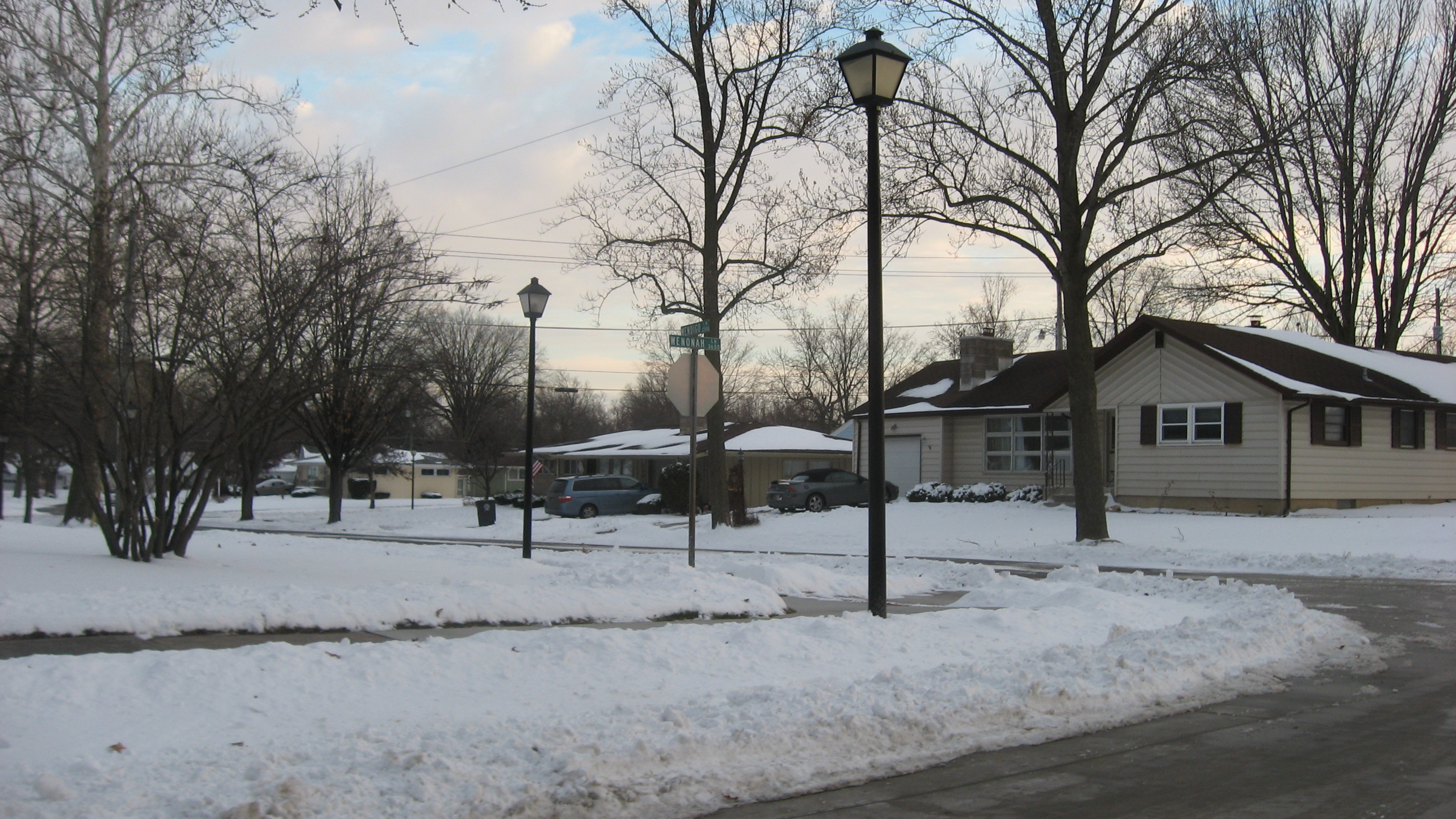 Houses on the southern side of Wendigo Lane east of Wenonah Lane in Fort Wayne, Indiana, United States. This neighborhood is part of the Indian Village Historic District, a historic district that is listed on the National Register of Historic Places.